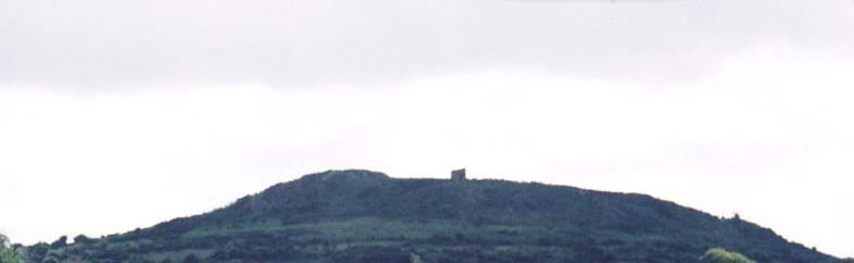 View of Vinegar Hill from east side taken June 2006